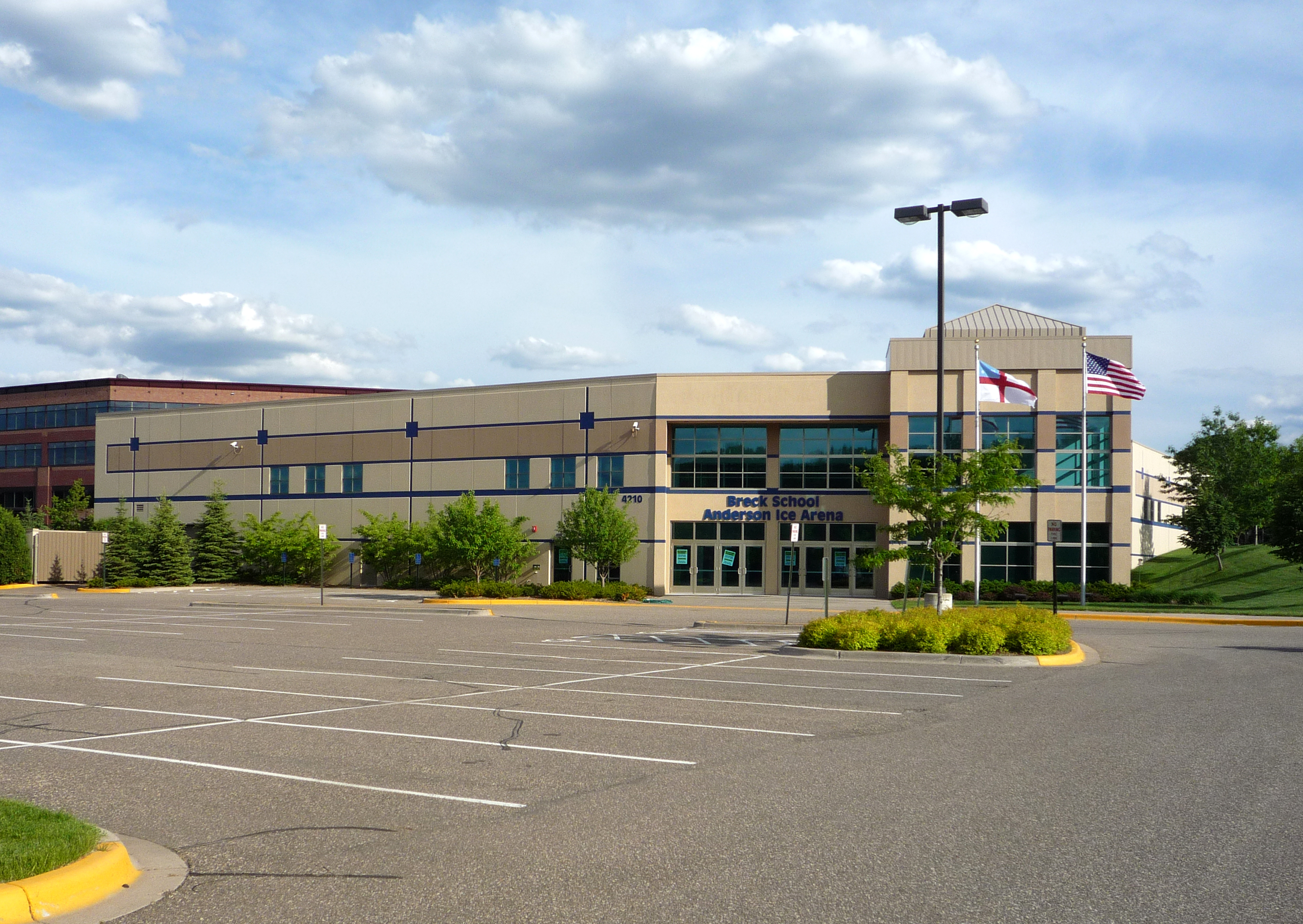 Breck School Anderson Arena, Golden Valley, Minnesota, USA.